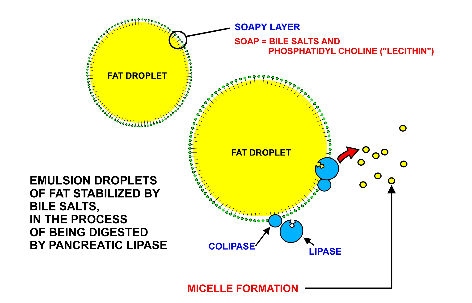 Dietary fats are emulsified in the duodenum by soaps in the form of bile salts and phospholipids, which can then be attacked by pancreatic lipase.